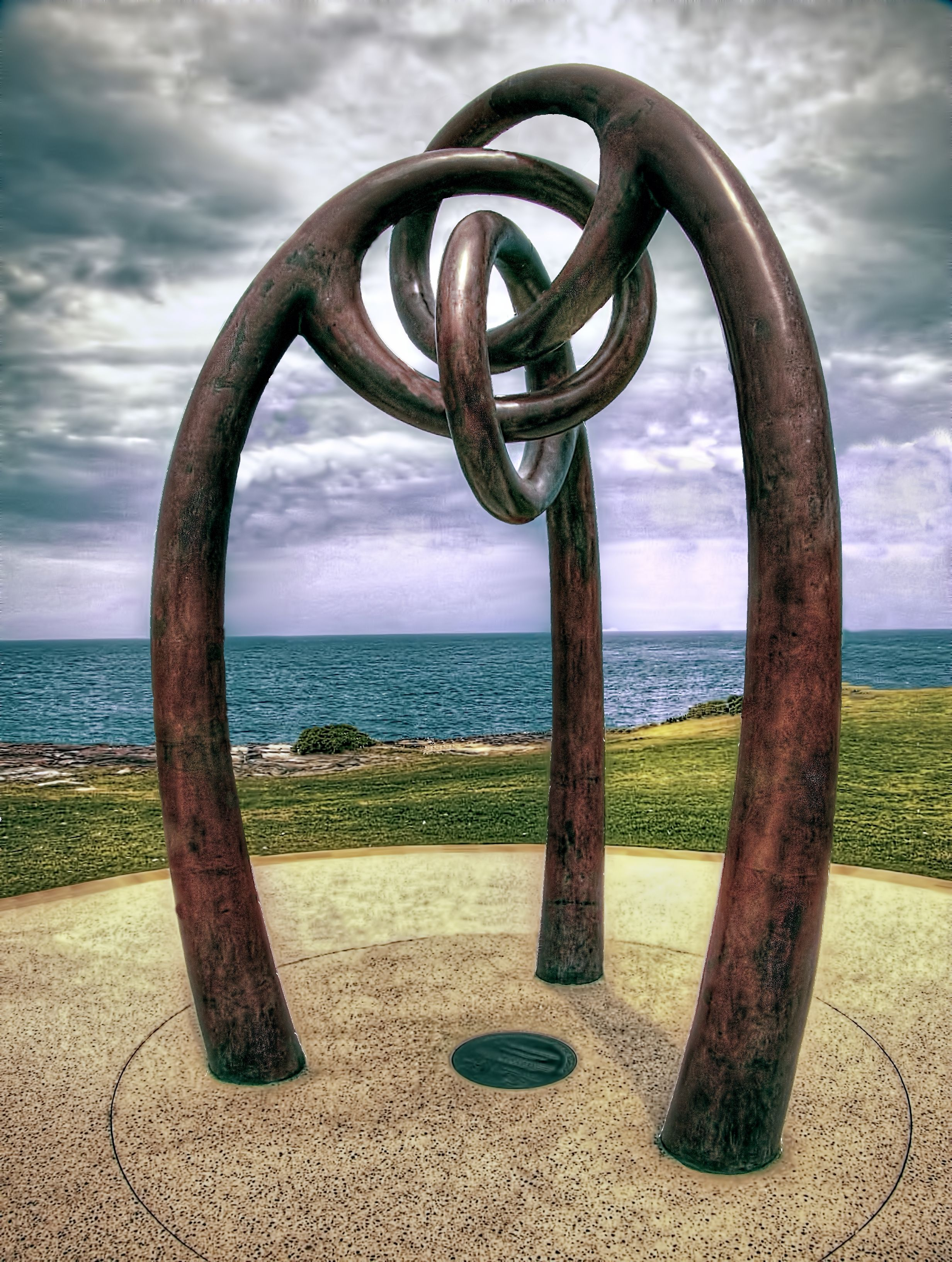 the memorial at coogee beach for the lost australians